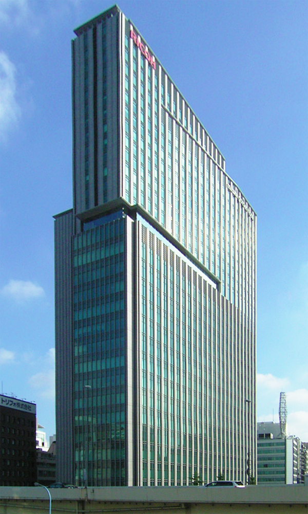 Ricoh Company, Ltd. Head Office Building Ricoh Company, Ltd. Ginza Head Office address = 8-13-1, Ginza, Chuuo-ku, Tokyo Ginza Office map